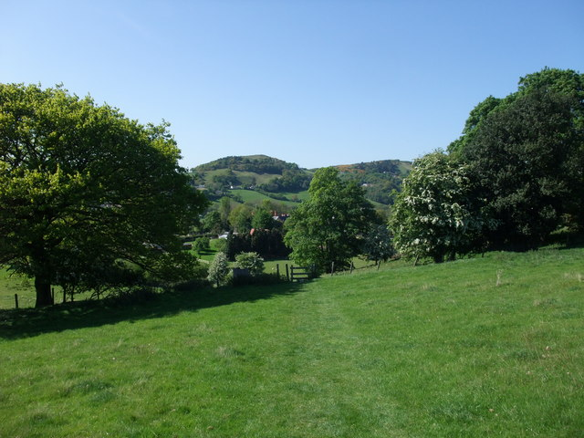 Offa's Dyke Path towards Bodfari: Grove Hall Farm nestling in trees in the mid-distance, and the hill fort of Moel-y-Gaer on the horizon